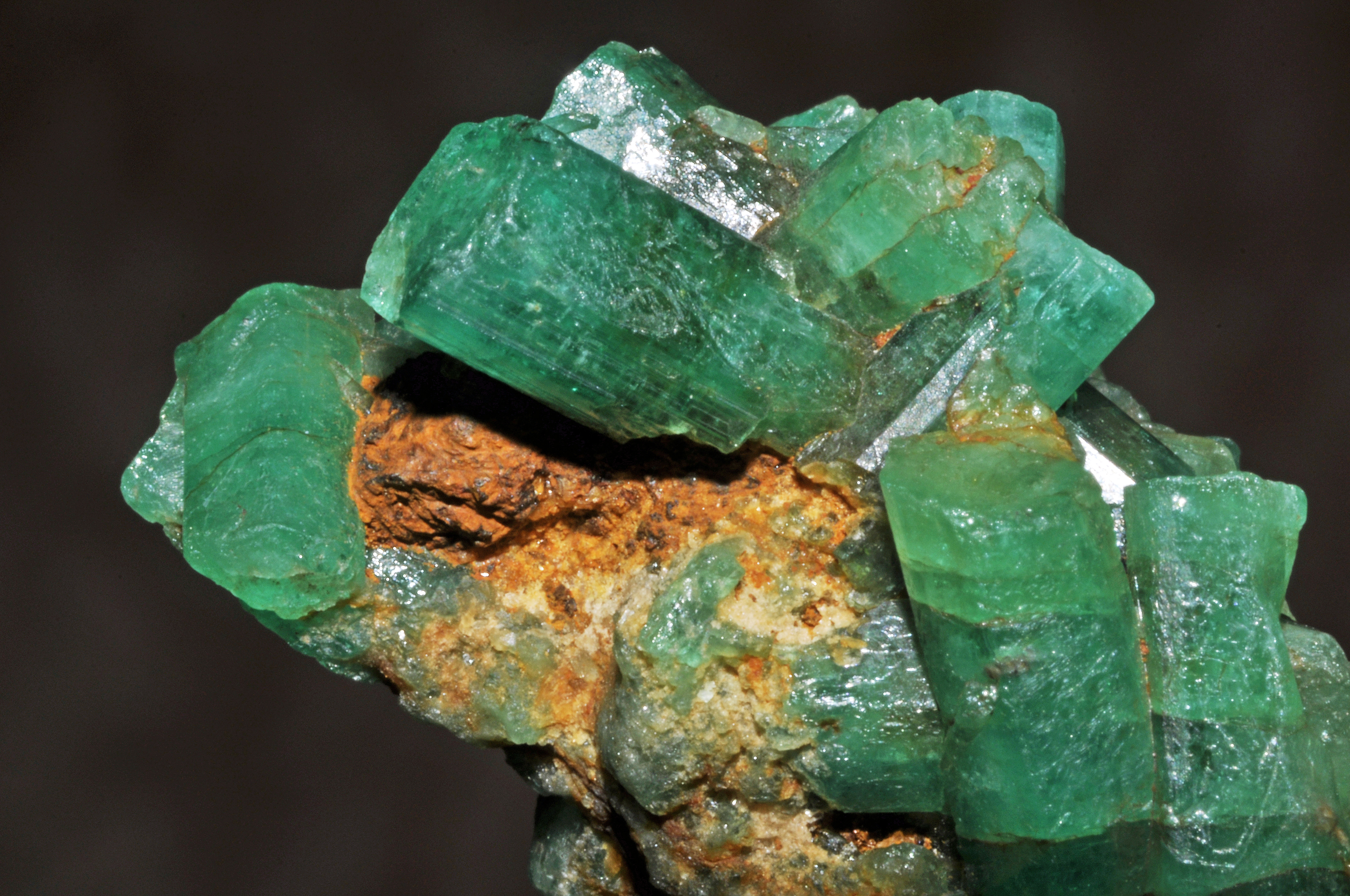 beryl var. emerald, parisite-(Ce) : Muzo Mine, Mun. de Muzo, Vasquez-Yacopí Mining District, Boyacá Department, Colombia